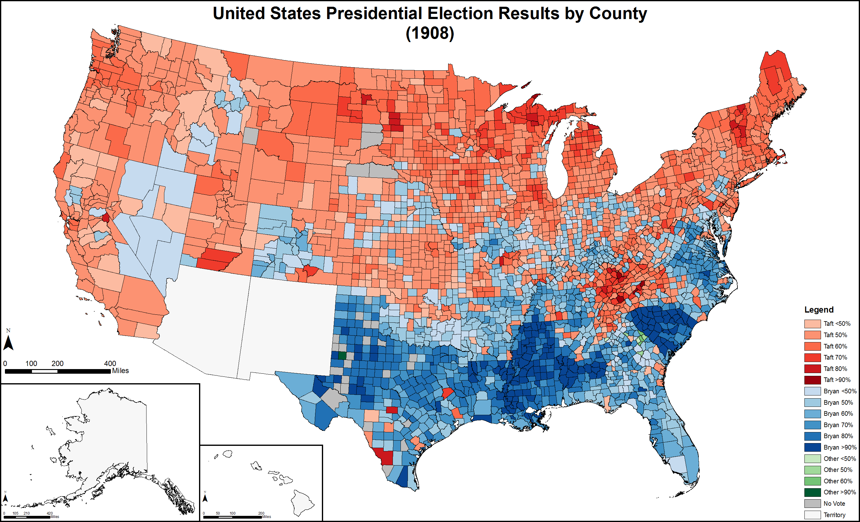 Presidential election results by county (1908). Colors based on Colorbrewer 2.0.